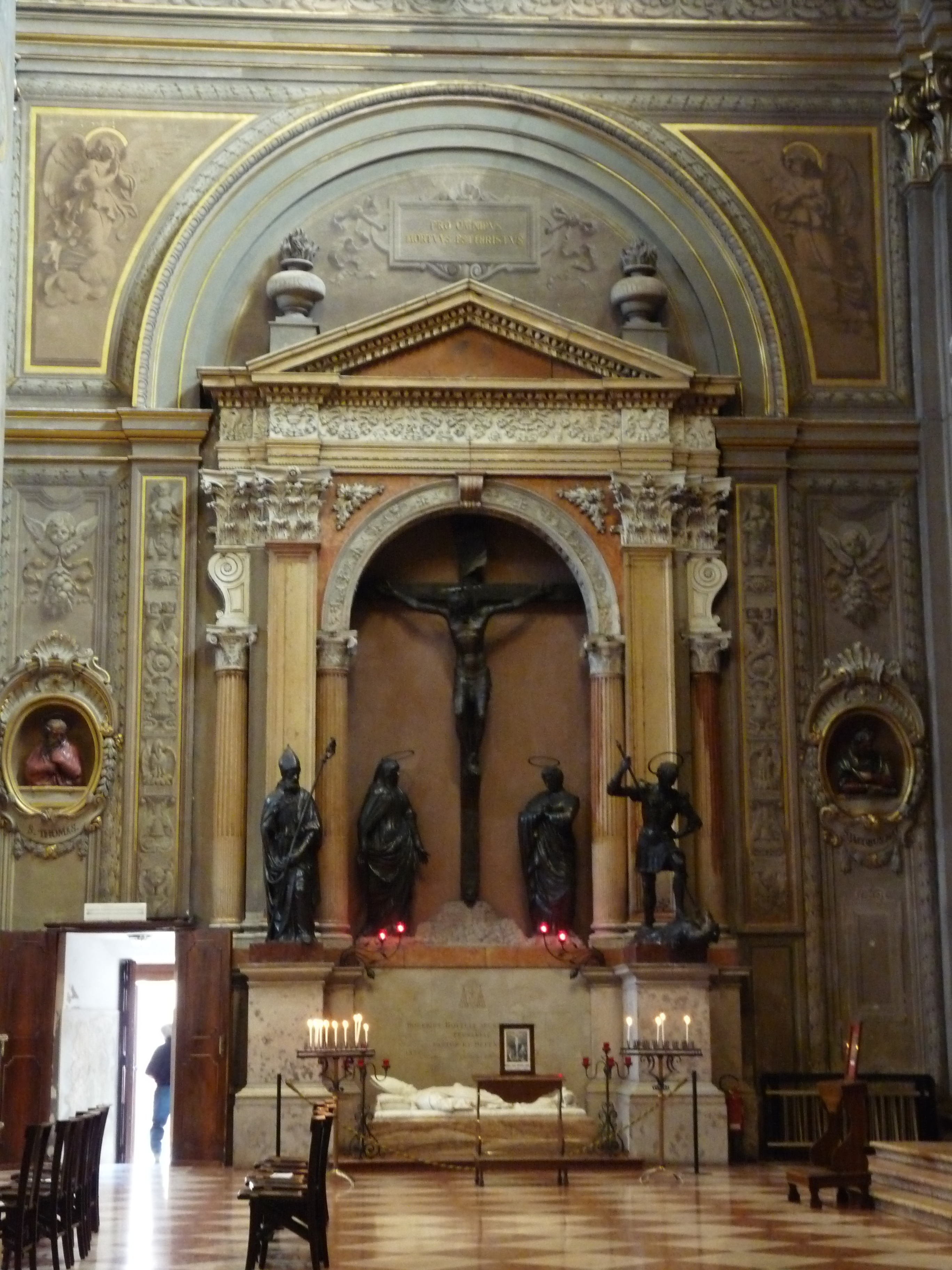 Ferrara (Italy): Duomo: Inside: Altar of the Calvary, composed 1673, including Virgin and St. John by Nic. Baroncelli, and Saint George and Saint Maurelius by Giovanni Baroncelli and Domenico Paris. Below the tomb of bishop Ruggero Bovelli of Ferrara (1875-1954)